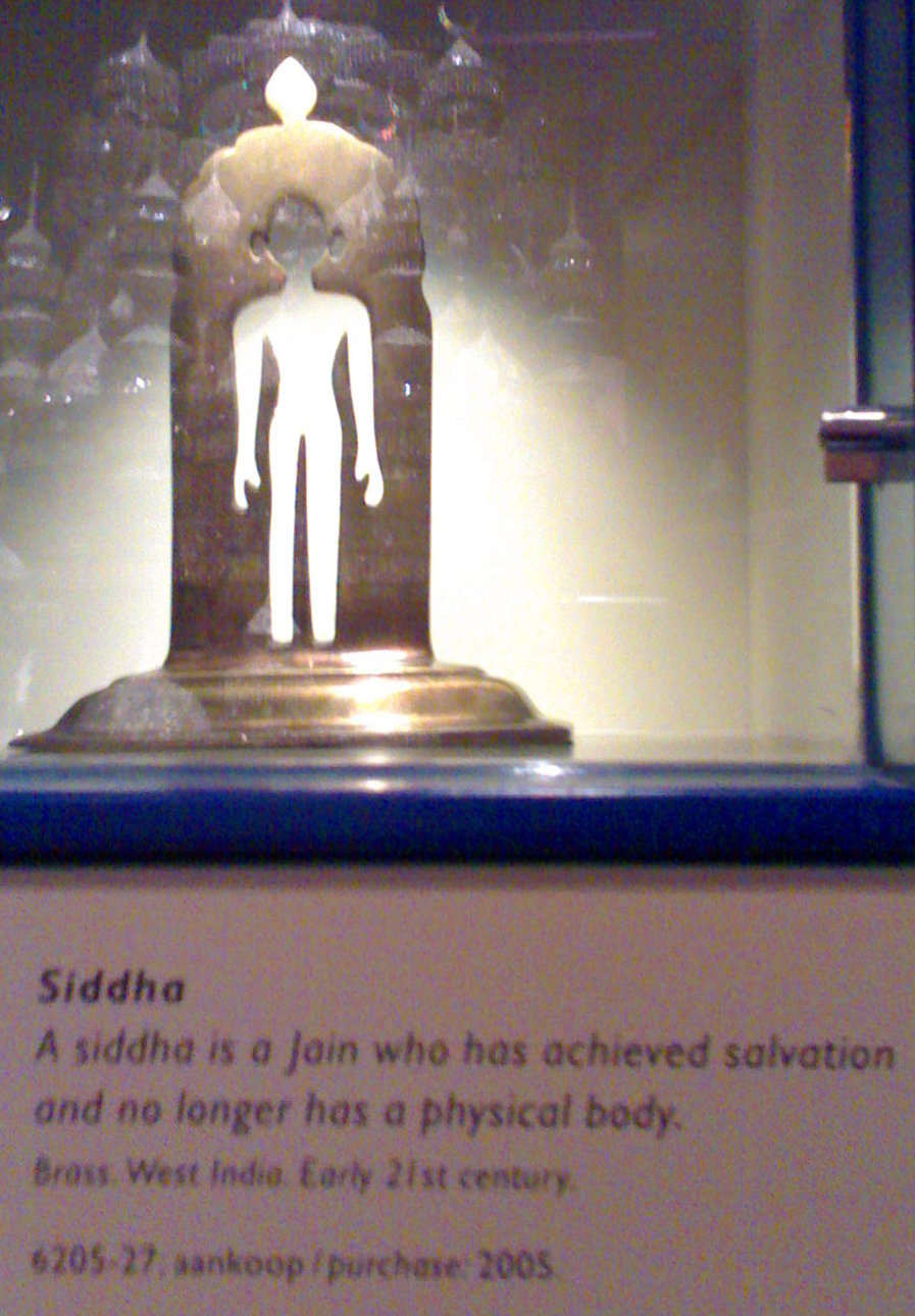 A photograph of a Siddha figure I took at Tropenmuseum, Amsterdam